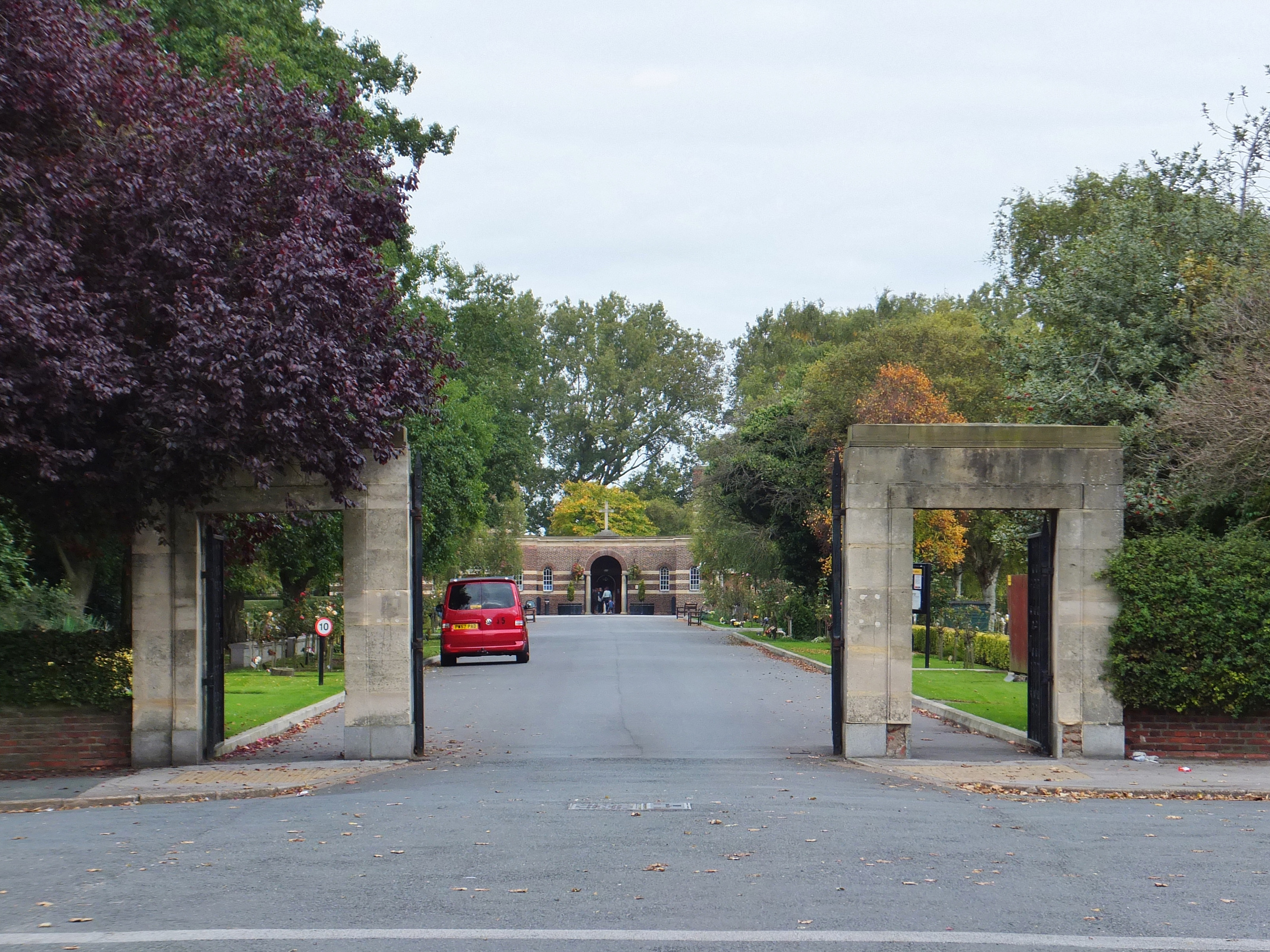 Preston Road, Kingston upon Hull